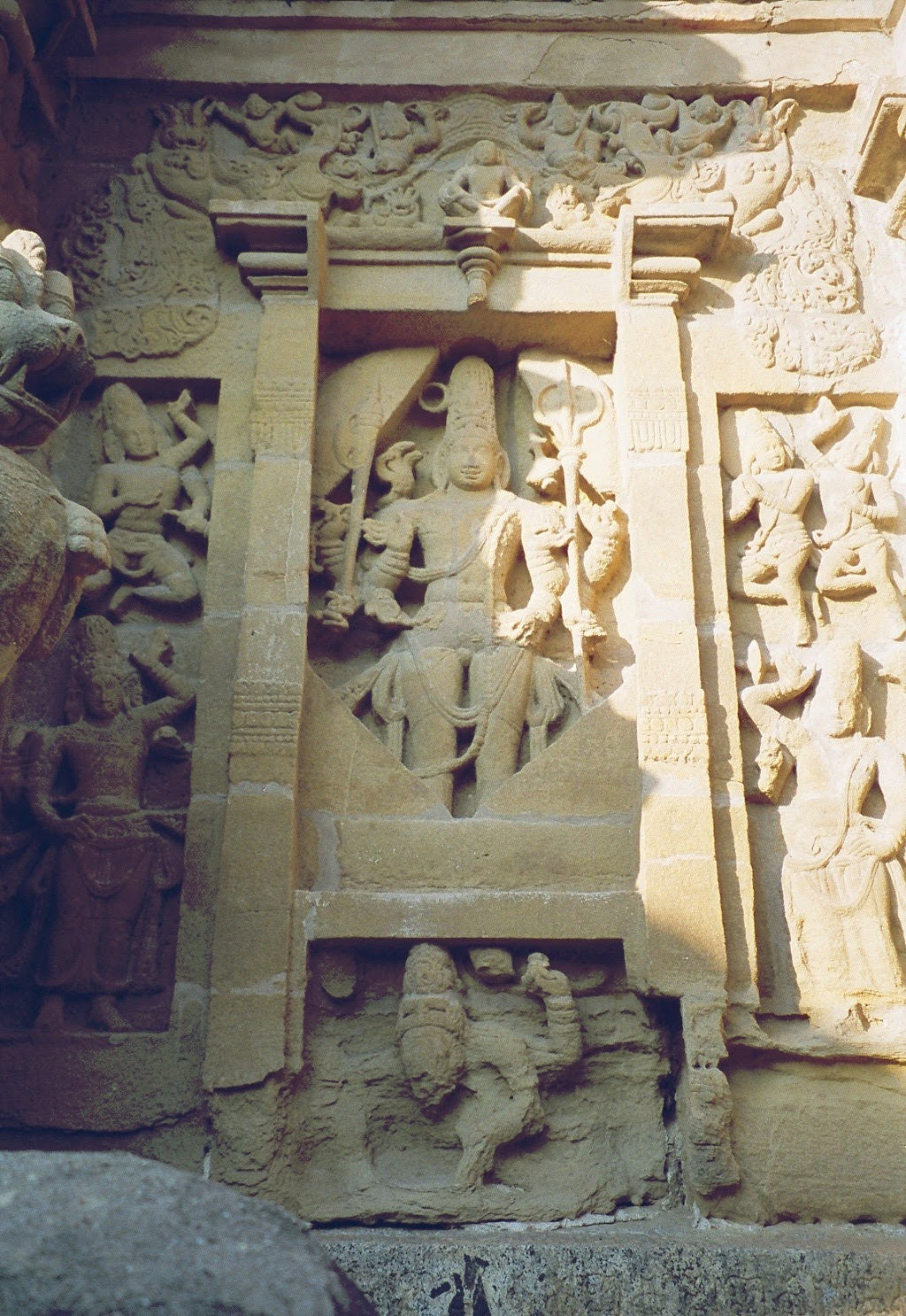 Lingodbhava Shiva ~ Kailashanathar Kovil Kanchipuram, TN